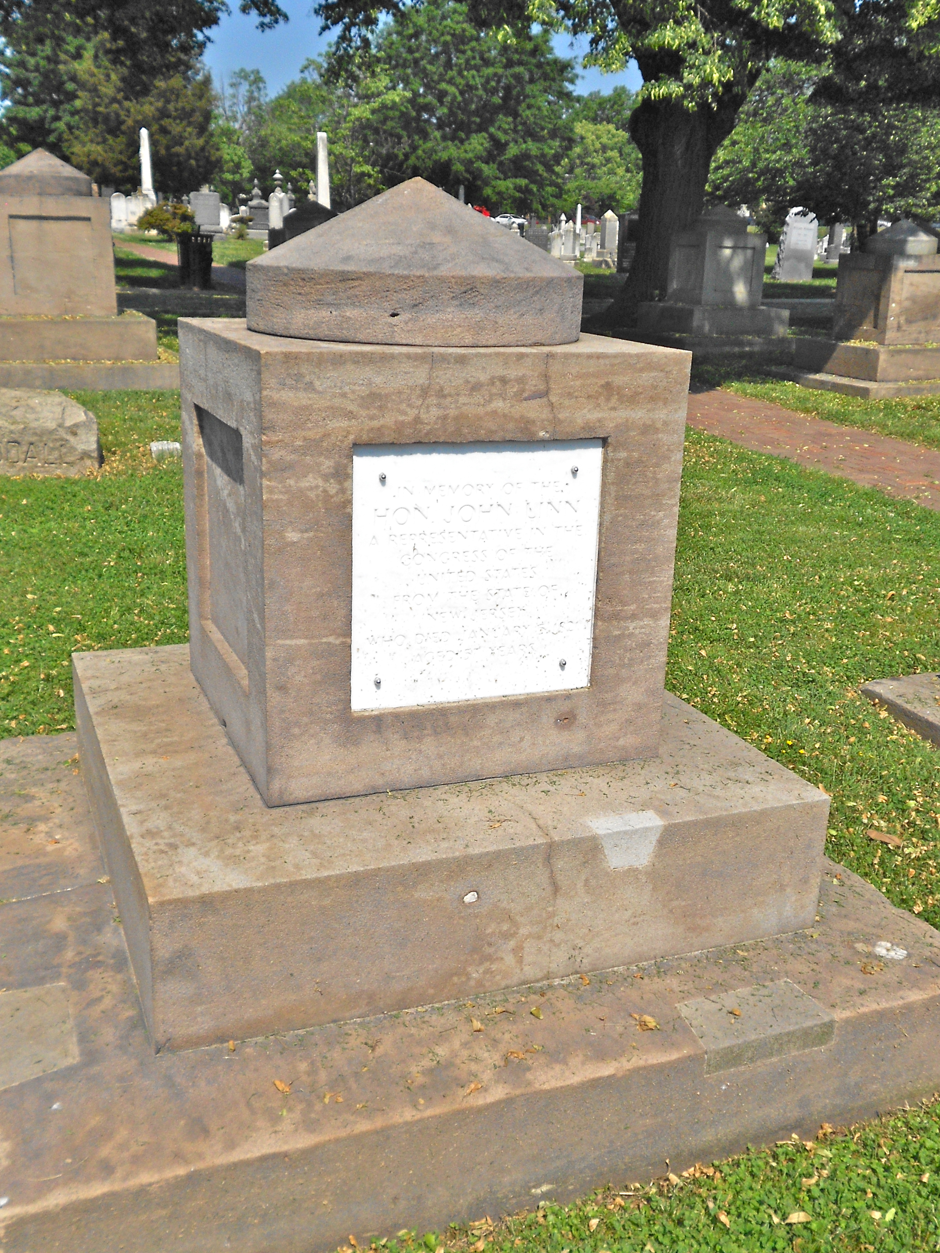 Latrobe Cenotaph in Congressional Cemetery, Washington, DC for John Linn